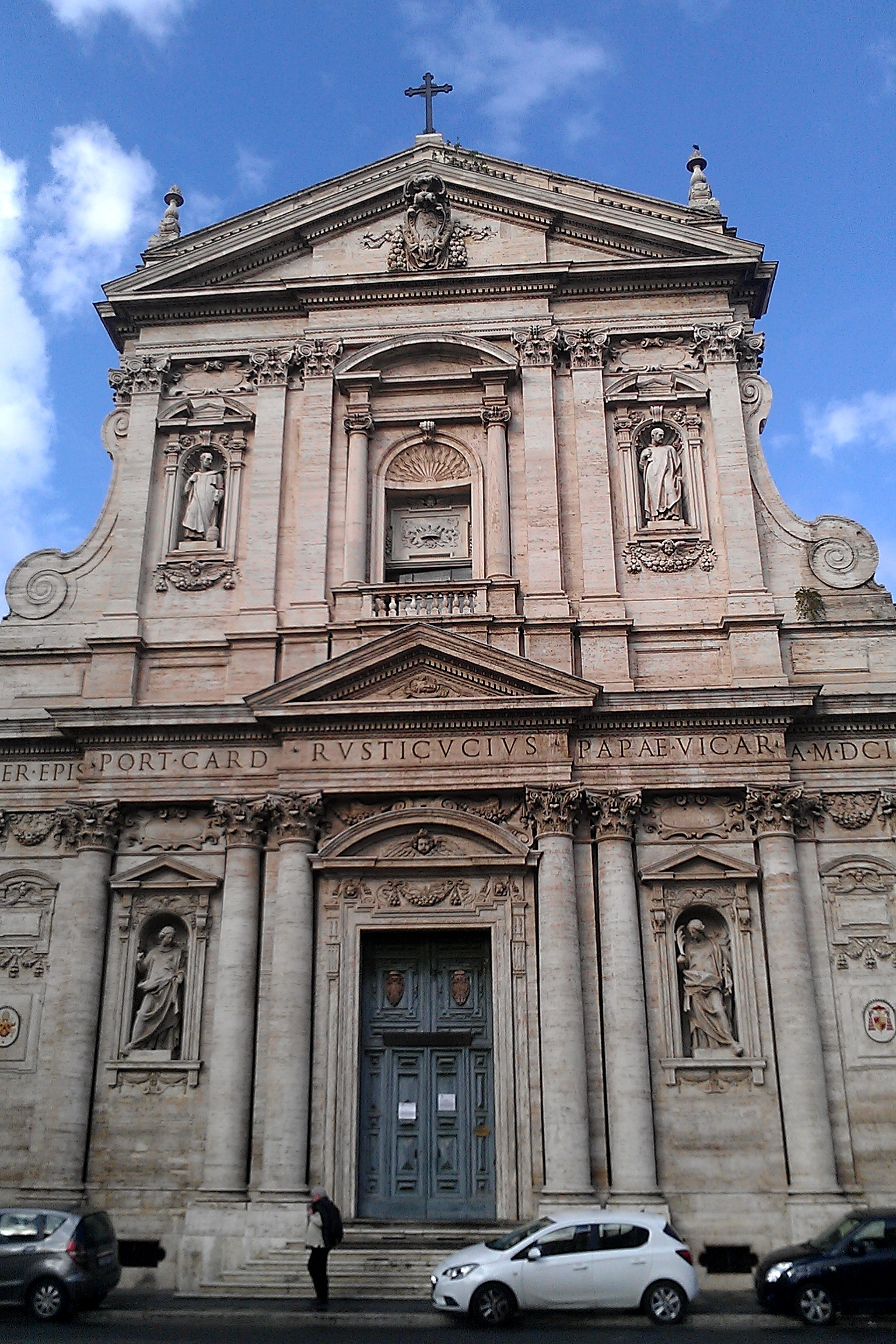 Exterior of the Santa Susanna, Rome.